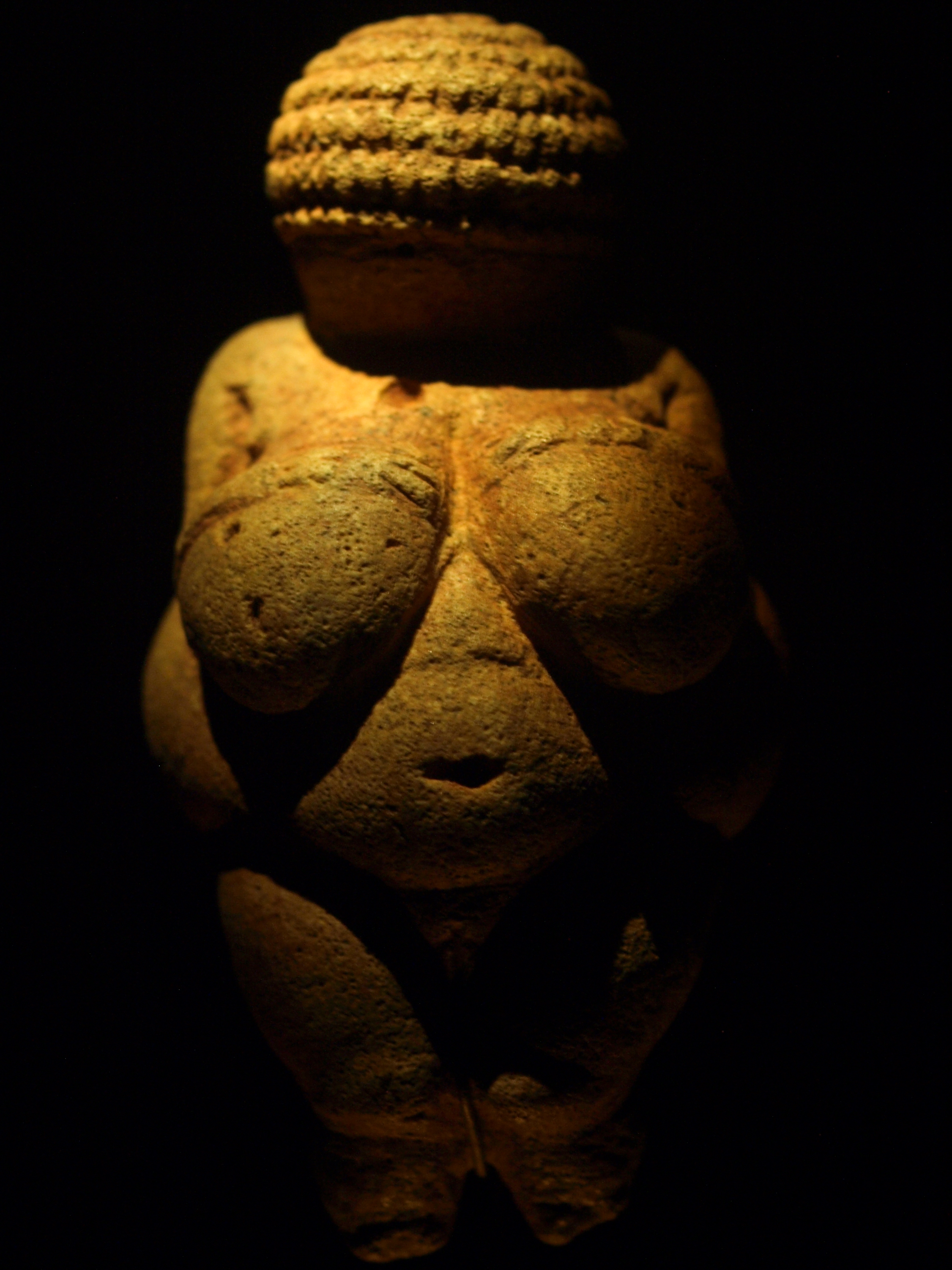 Venus of Willendorf, on display at the Naturhistorisches Museum, Vienna.